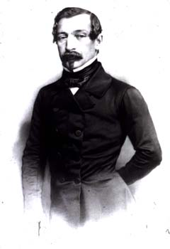 President Louis-Napoleon Bonaparte